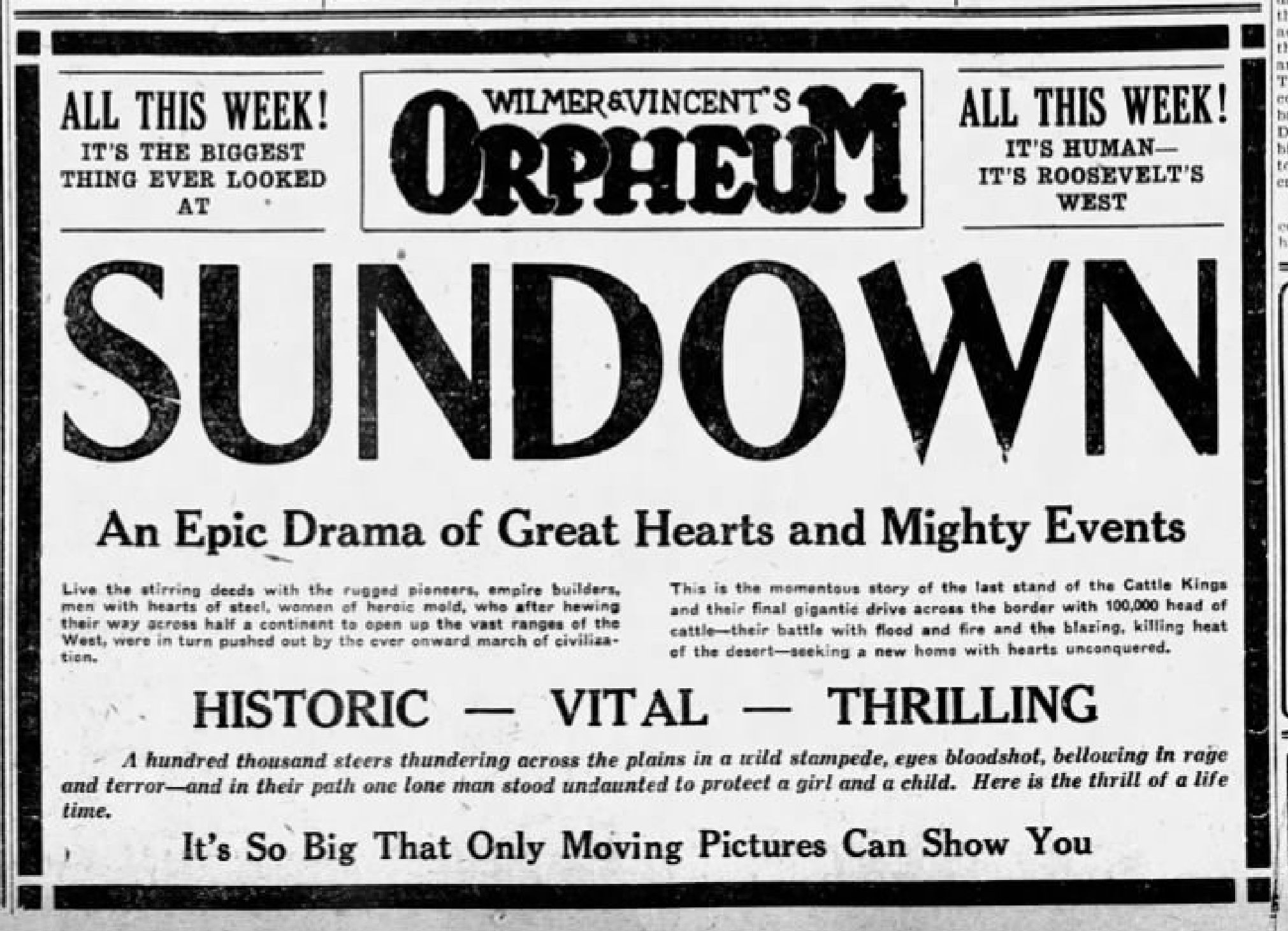 Orpheum Theater advertisement for the American film Sundown (1924) - 9 Mar. 1925 Morning Call, Allentown PA